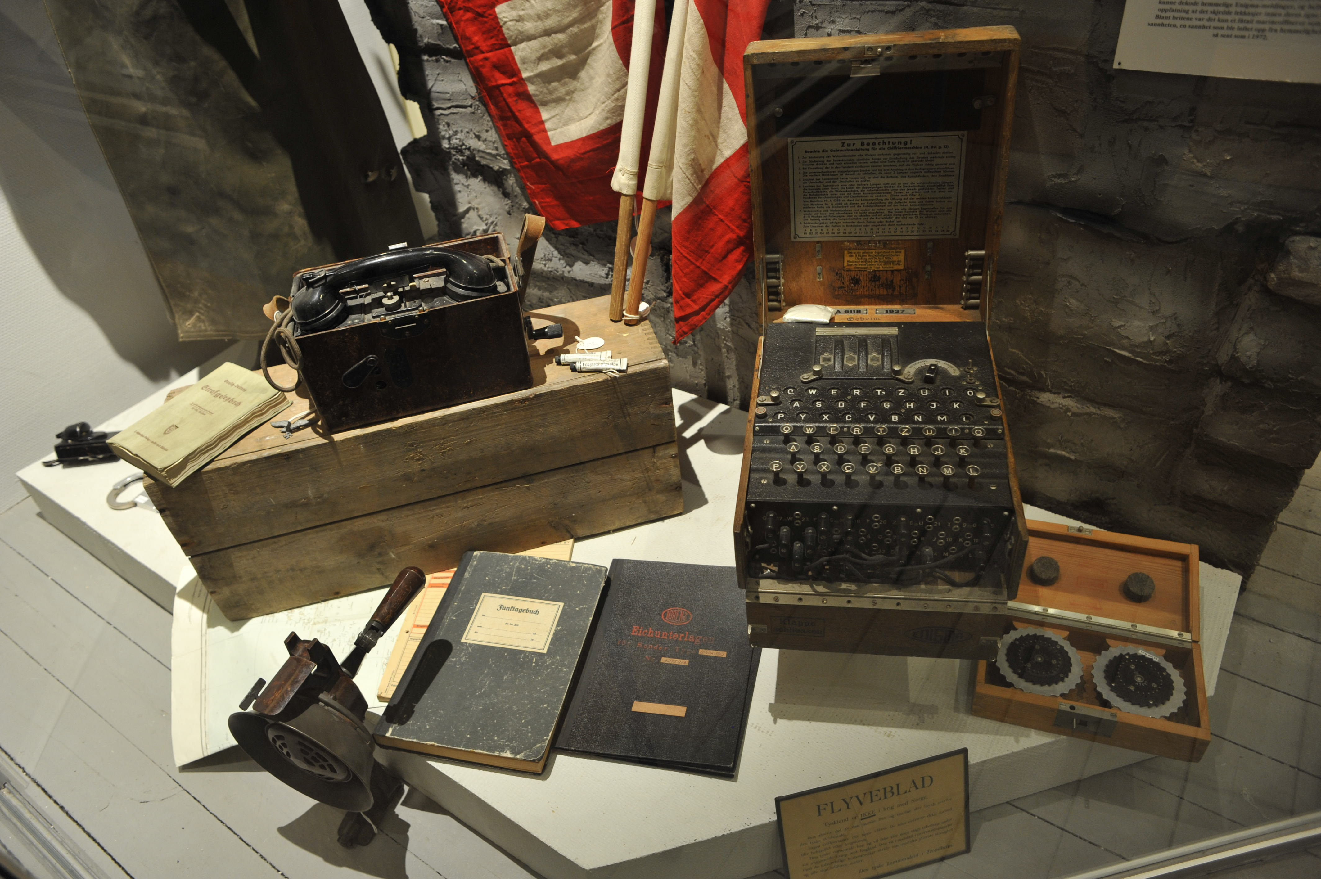 German Enigma electro-mechanical rotor cipher machine with two rotor wheels in box, Feldfernsprecher 33 (FF33) field telephone, semaphore (Winkeralphabet) signal flags, etc. on display in the WW2 room of the "Justismuseet" (the Norwegian National Museum of Justice) in Trondheim, Norway